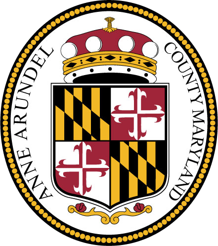 The county seal of Anne Arundel County, Maryland.